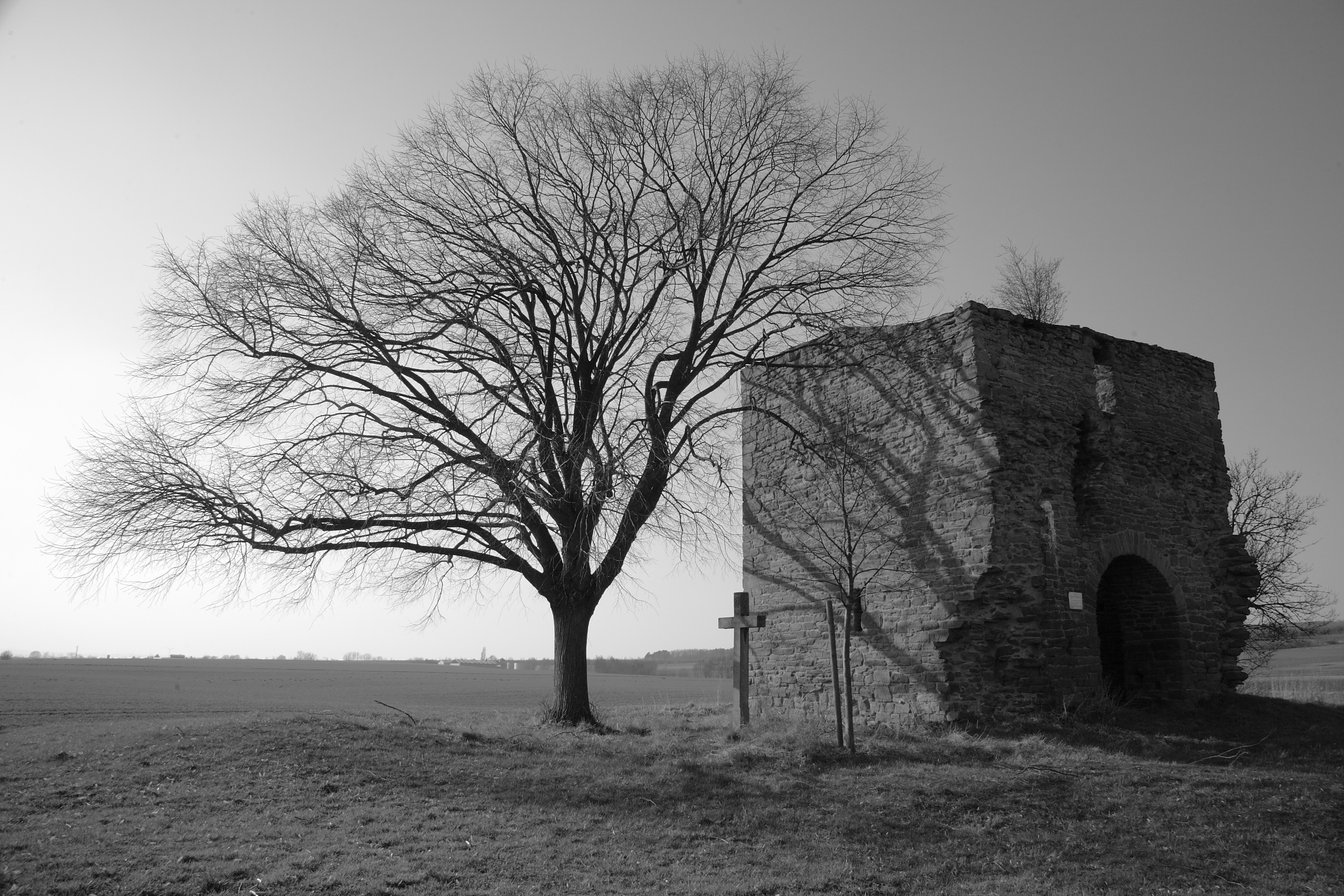 Ruin of church in abandoned village of Emmerke near Borgentreich, District of Höxter, North Rhine-Westphalia, Germany.